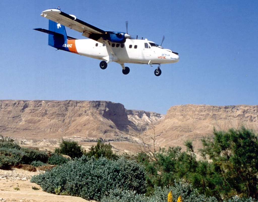 4X-AHZ near Masada Israel